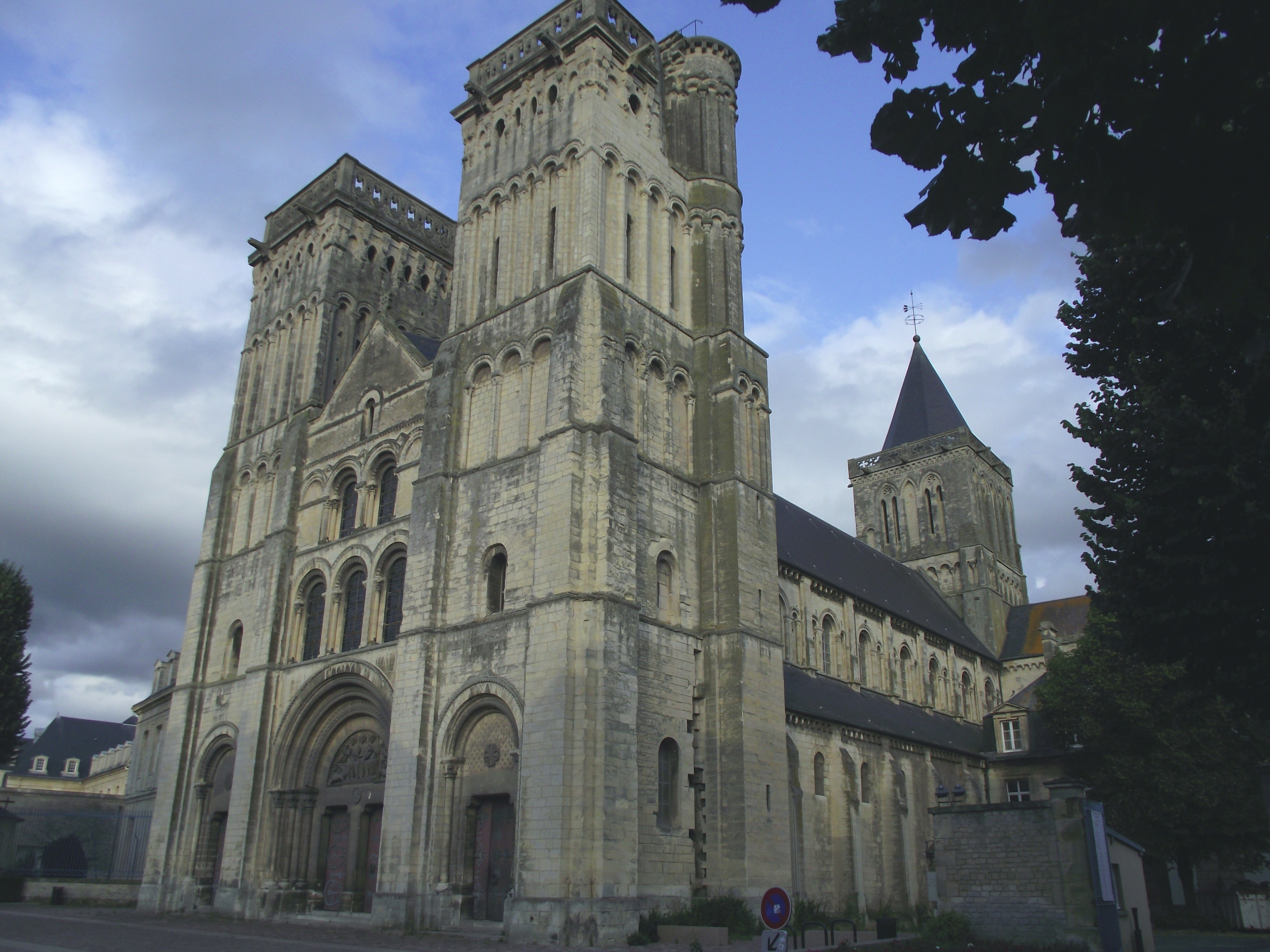 Caen, Trinity Church, XI Century